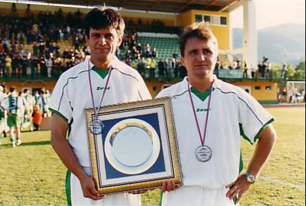 Edin Osmanović, and Obrad Mudrinić (assistant coach) receivnig award for 2nd place on the Slovenian National Cup 2004.